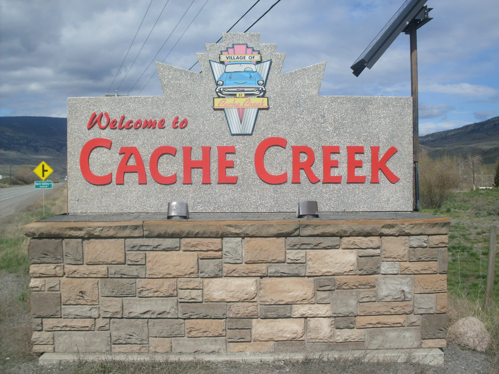 Cache Creek's welcome sign